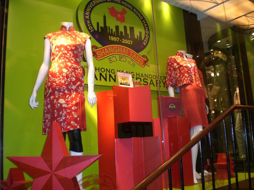 著名特色時裝店 "上海灘" Shanghai Tang, 香港中環zh:畢打街, Pedder Street, Central, Hong Kong Author= SHOLYWOD